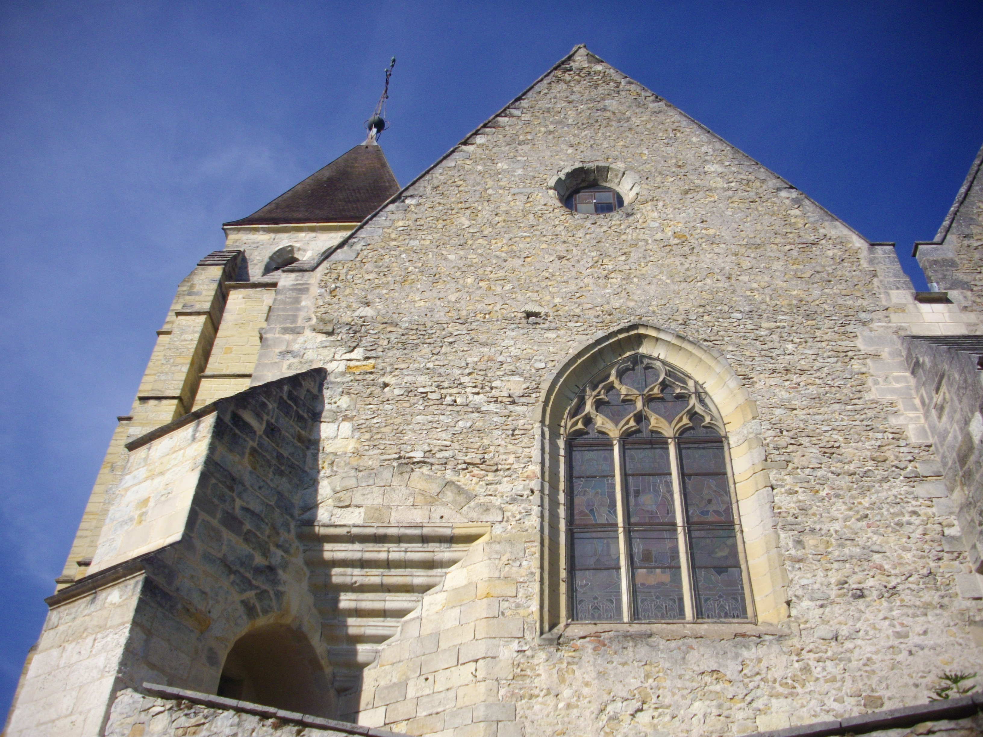 Our Lady church of Vierzon (Cher, France), southern side .